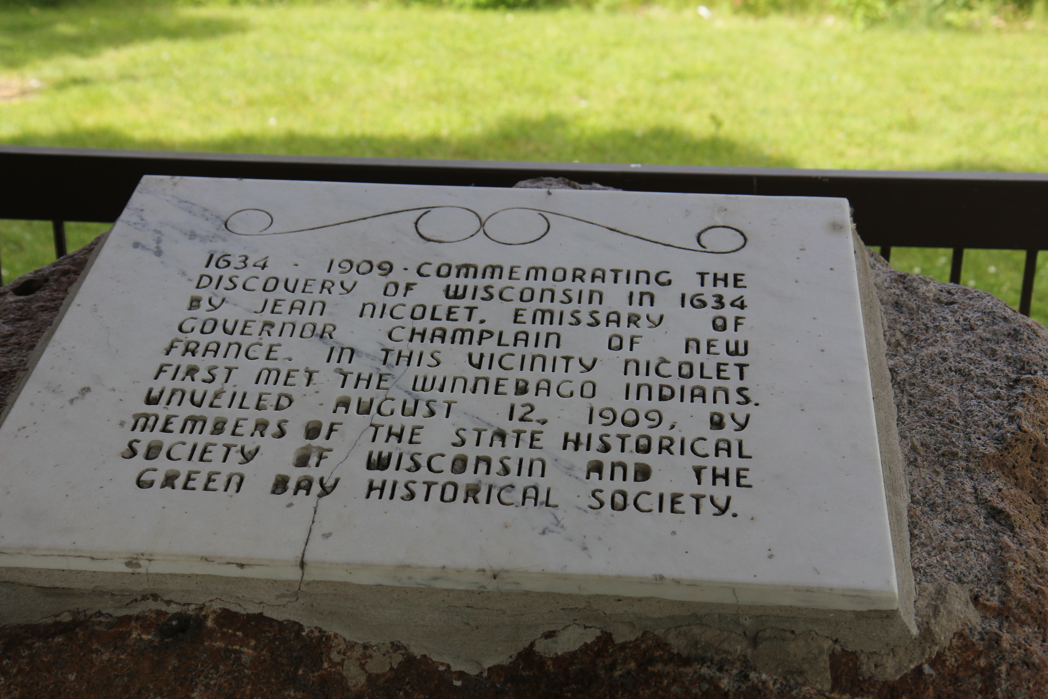 1909 plaque commemorating Jean Nicolet's landing near Red Bank, Wisconsin.